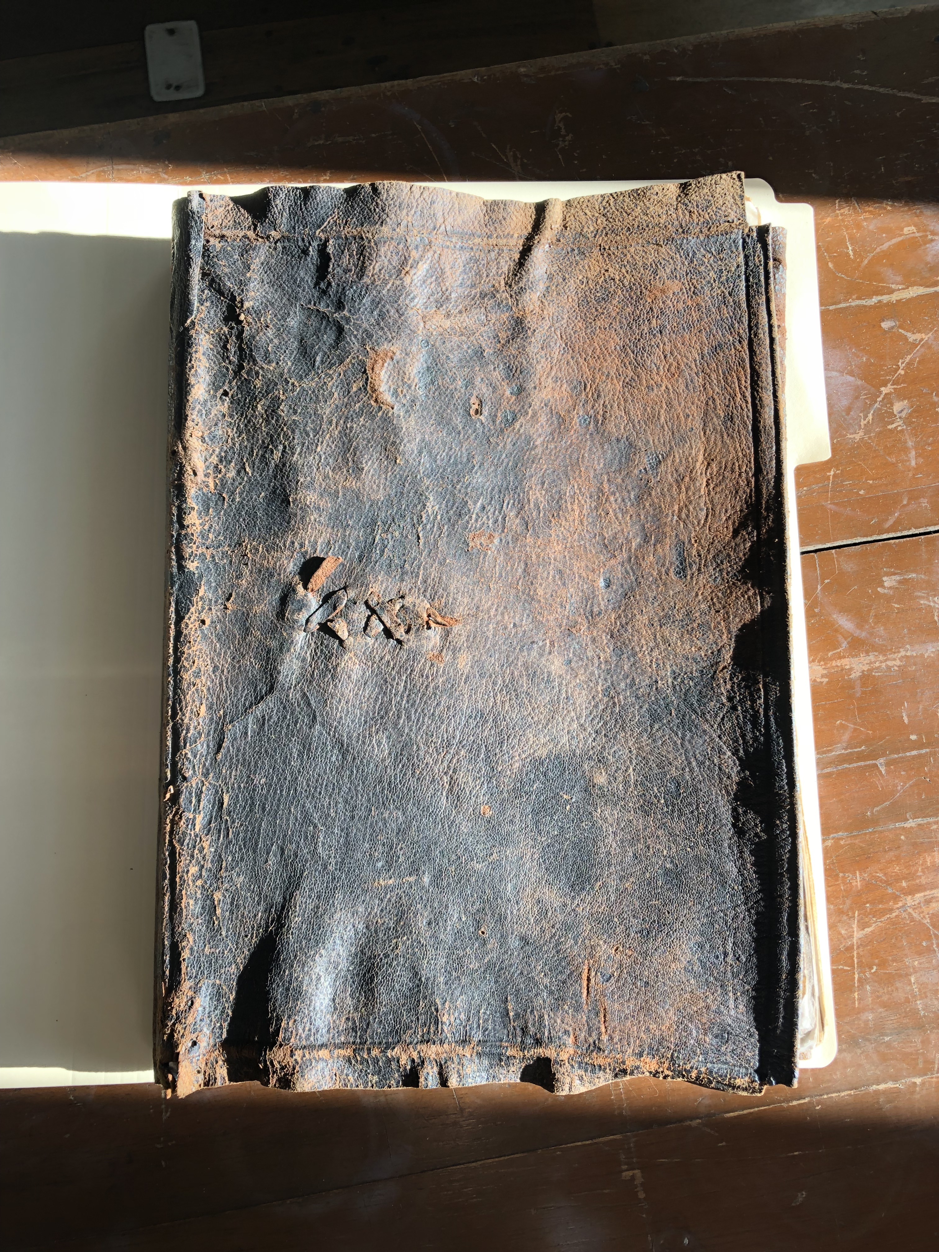 Se muestran aquí todas las defunciones de los ciudadanos de Cuenca, también fue usado como inventario